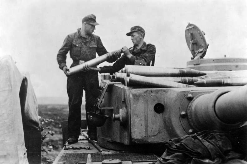 World War II 1939-45 At the front in the Soviet Union; Late July 1943 The crew of a heavy tank of the German Waffen SS loading grenades during the battle in the Kursk Bogen before a new mission in the Bjelgorod area. Aufnahme: Rottensteiner 3787-43 [Scherl Bilderdienst]